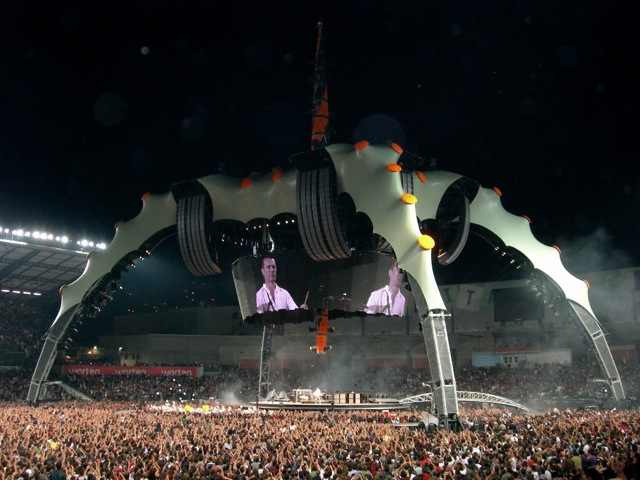 Photo by Pedro Saraiva